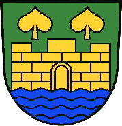 Coat of arms of Kefferhausen